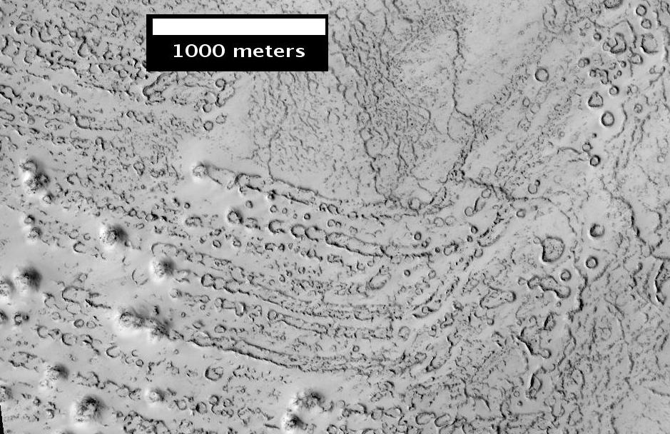 Rootless cones in the Phlegra Dorsa region of Mars, formed by lava interacting with ice, as seen by HiRISE. Location is 25.988 N and 173.729 E. Acquisition date: 04 January 2008 Local Mars time: 2:24 PM Latitude (centered): 25.910 degrees Longitude (East): 173.760 degrees Range to target site: 292.6 km (182.9 miles) Original image scale range: 29.3 cm/pixel (with 1 x 1 binning) so objects ~88 cm across are resolved Map projected scale: 25 cm/pixel and North is up Map projection: EQUIRECTANGULAR Emission angle: 6.2 degrees Phase angle: 46.1 degrees Solar incidence angle: 40 degrees, with the Sun about 50 degrees above the horizon Solar longitude: 12.5 degrees, Northern Spring For non-map projected products: North azimuth: 97 degrees Sub-solar azimuth: 340.7 degrees For map-projected products North azimuth: 270 degrees Sub solar azimuth: 155.5 degrees